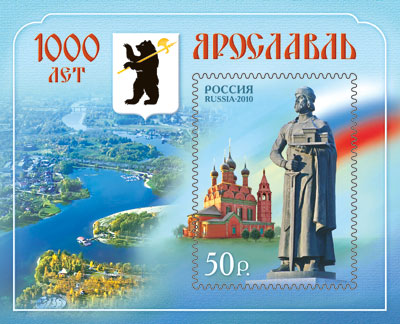 1000 years of Yaroslavl (souvenir sheet)